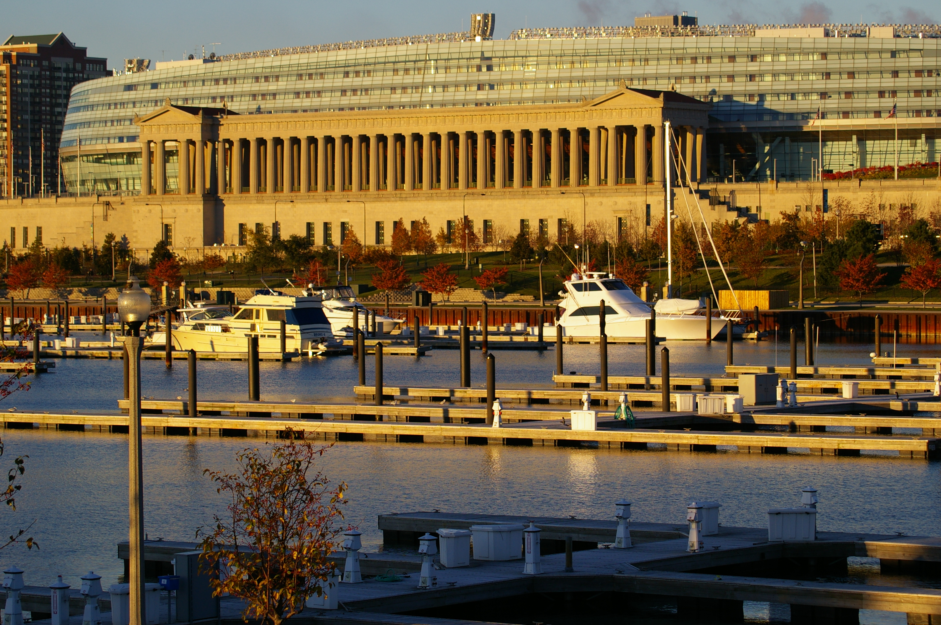 east side of Soldier Field, Chicago, Illinois. Taken October, 2006. Photographer: Robert Rice